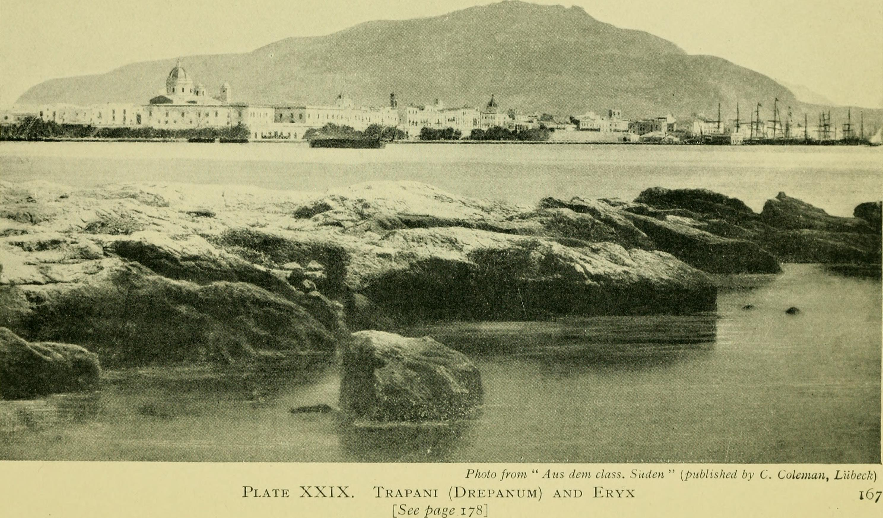 Title: Republican Rome; her conquests, manners and institutions from the earliest times to the death of Caesar Year: 1914 (1910s) Authors: Havell, H. L. (Herbert Lord), d. 1913 Subjects: Rome -- History Republic, 510-30 B.C Publisher: London, G. Harrap Text Appearing Before Image: Plate XXXllI. Columna Rostrata Text Appearing After Image: FIRST PUNIC WAR along the middle of the deck, and when the ship went intoaction it could be hauled up by means of a pulley fixed at thetop of a stout mast, which was set up at the prow of the vessel.Ikying close to the mast, and playing freely round it, the gang-way could be dropped at any moment on the deck of theattacking ship, where it was held fast by a strong claw orgrappling iron, fixed underneath at its farther end. Thenthe boarding-party, with two picked men at their head, rushedin a double file on to the enemys deck, and carried all beforethem by sheer strength of hand and skill with the sword.The strange machine was called a * crow, and its effect was tochange the whole character of a sea-fight and give it the aspectof a battle on land.^ Battle of Mylae At the beginning of spring in the fifth year of the war (260B.C.) the Roman fleet set sail for Sicily, commanded by Scipio,one of the consuls, while his colleague, Duilius, had charge ofthe land forces. Scipio was surprised a